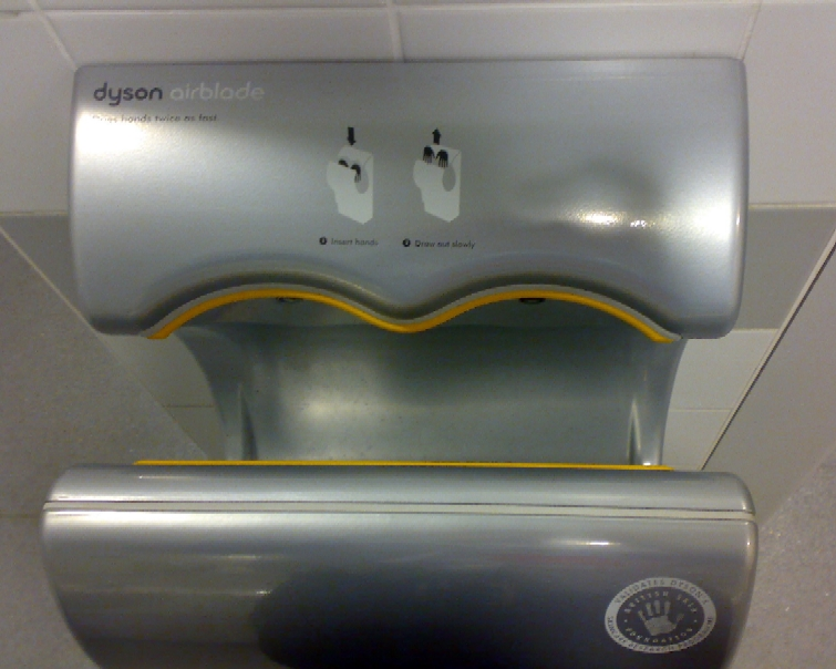 A Dyson Airblade hand-drier